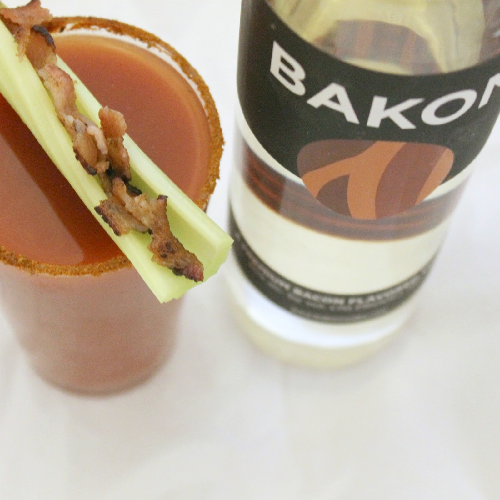 Photo of a Bacon Bloody Mary with a bottle of Bakon Vodka (a commercial bacon-flavored vodka)